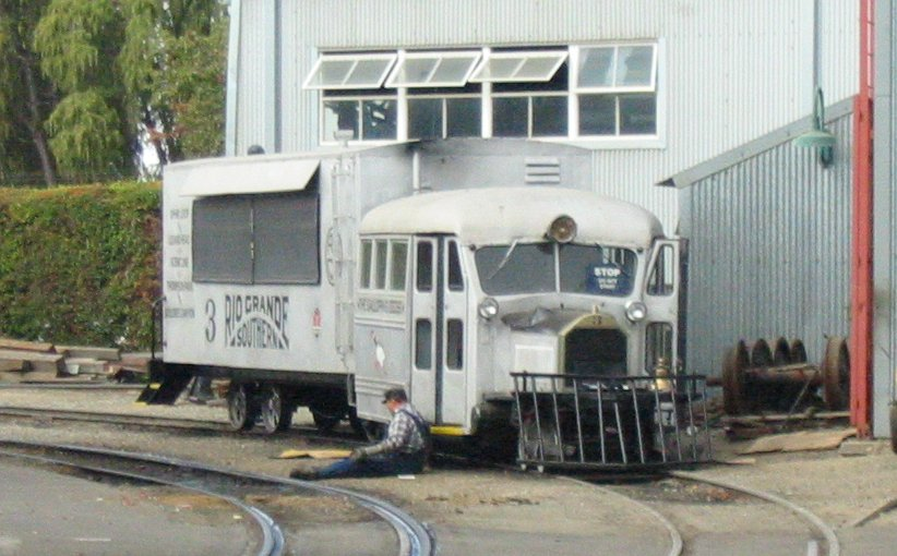 Galloping Goose number 3 formerly of the Rio Grande Southern Railroad undergoing repair at Knott's Berry Farm.